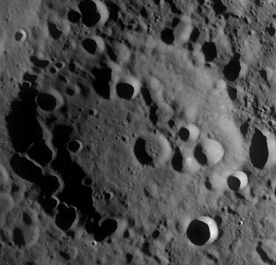 Tikhov lunar crater. LROC image WAC No. M118717037ME. Calibrated by LROC_WAC_Previewer.